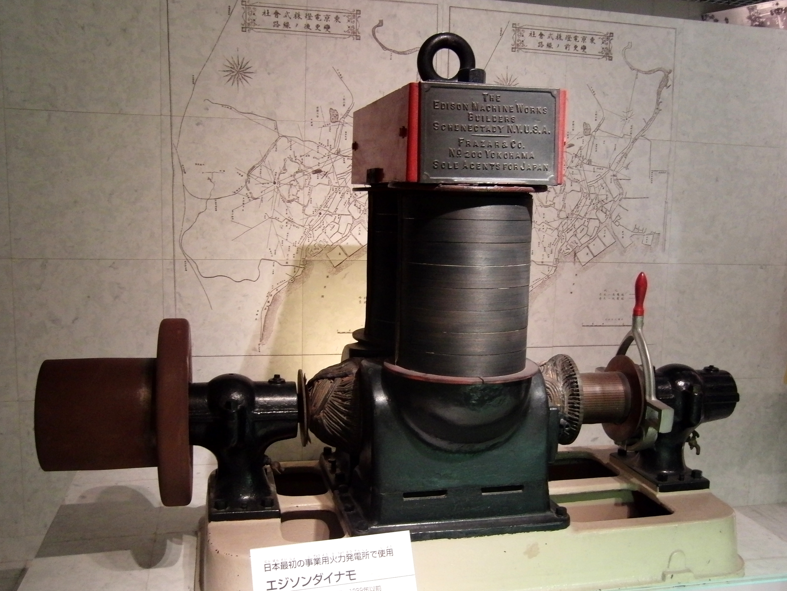 Edison Dynamo. Manufactured by Edison Machine Works Co.. Exhibit in the National Museum of Nature and Science, Tokyo, Japan.